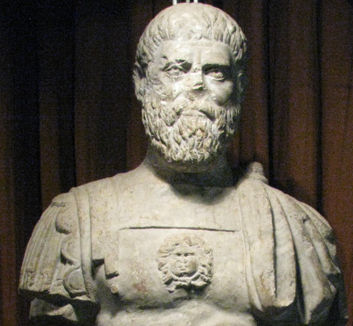 Possible statue of Roman Emperor Pertinax, originating from Apulum (modern Alba-Iulia, Romania). In display at National Museum of the Union. Close up.